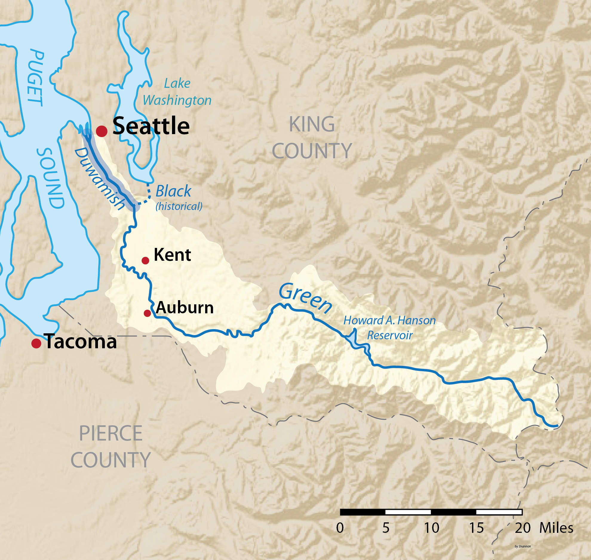 Map of the Duwamish/Green River in Washington, USA with the Duwamish River (Duwamish Waterway) highlighted. Made using USGS National Map data.